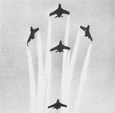 Grumman F9F-8 Cougar jets of the U.S. Navy flight demonstration team Blue Angels performing a "fleur de lis" maneouver in 1955.